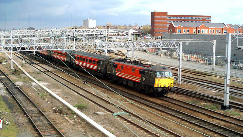 An old style Virgin express headed by a Class 87 electric locomotive on the West Coast Main Line, seen here approaching Rugby station. Photo by G-Man Spring 2004.